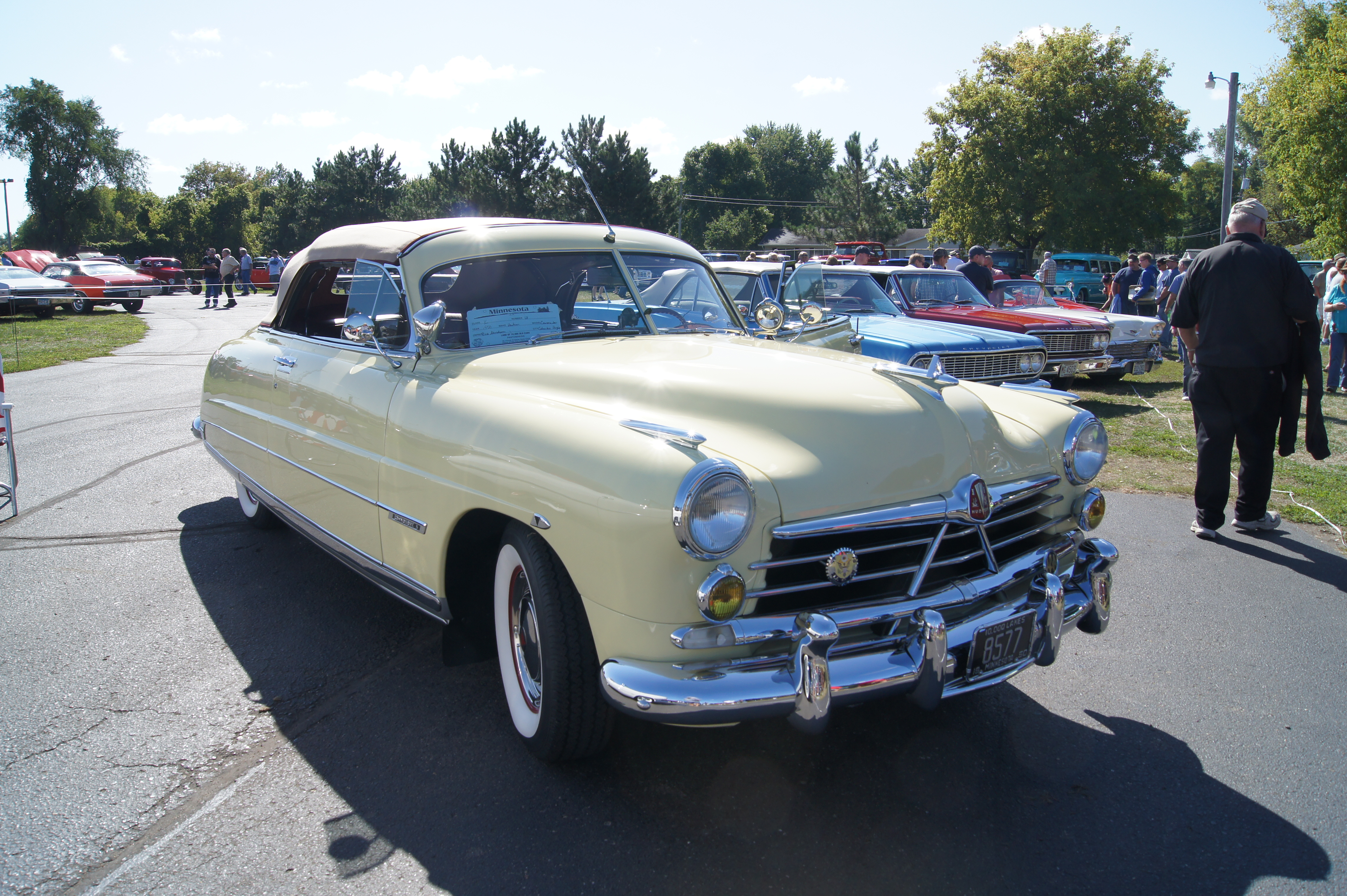 St. Cloud Antique Auto Club Pantowner's 37th Annual Car Show & Swap Meet